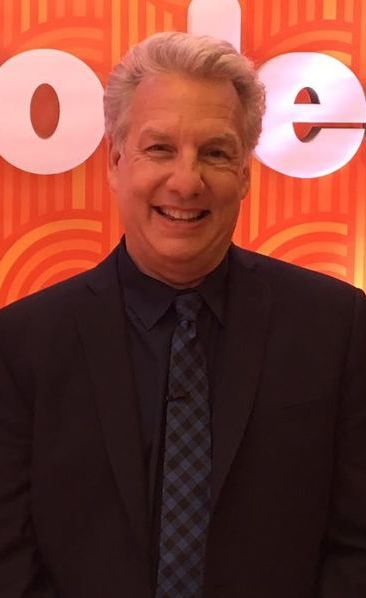 Host Marc Summers at San Diego Comic-Con 2016